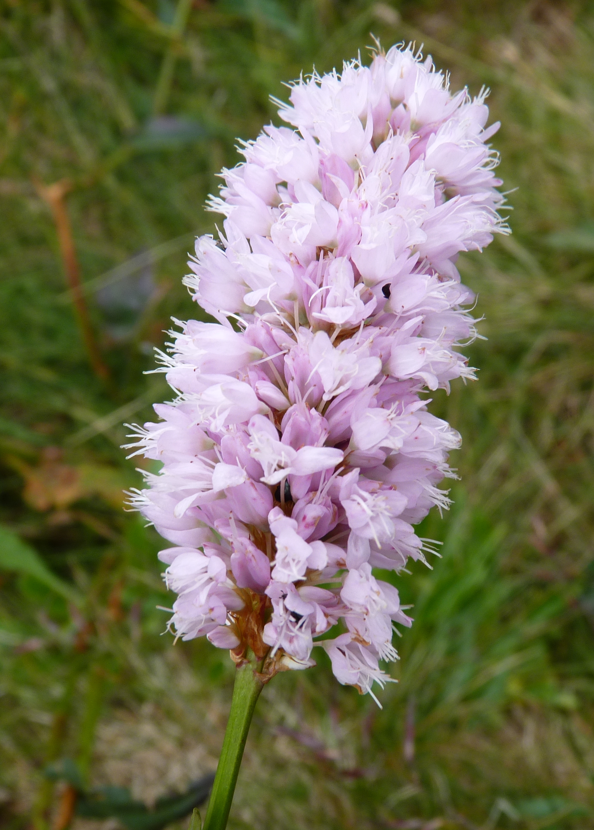 Bistorta major. Malá Studená dolina. Tatra Mountains, Slovakia